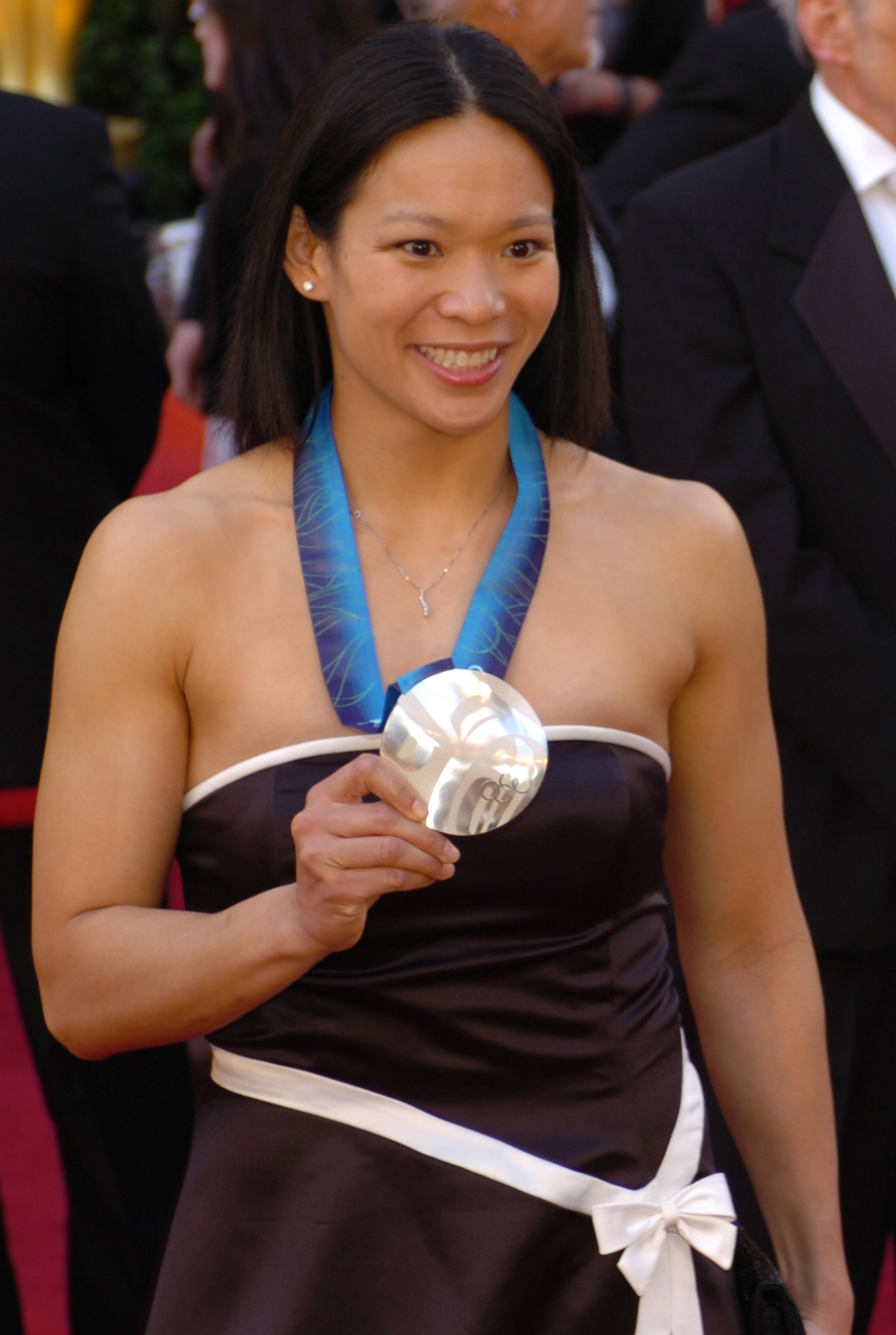 Julie Chu shows off her 2010 U.S. Women's Hockey silver medal at the 82nd Academy Awards, March 7, in Hollywood, Calif.